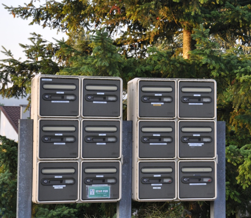 Cidex